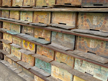 Beehive painting, Anton Janša's beehive, Breznica, Slovenia